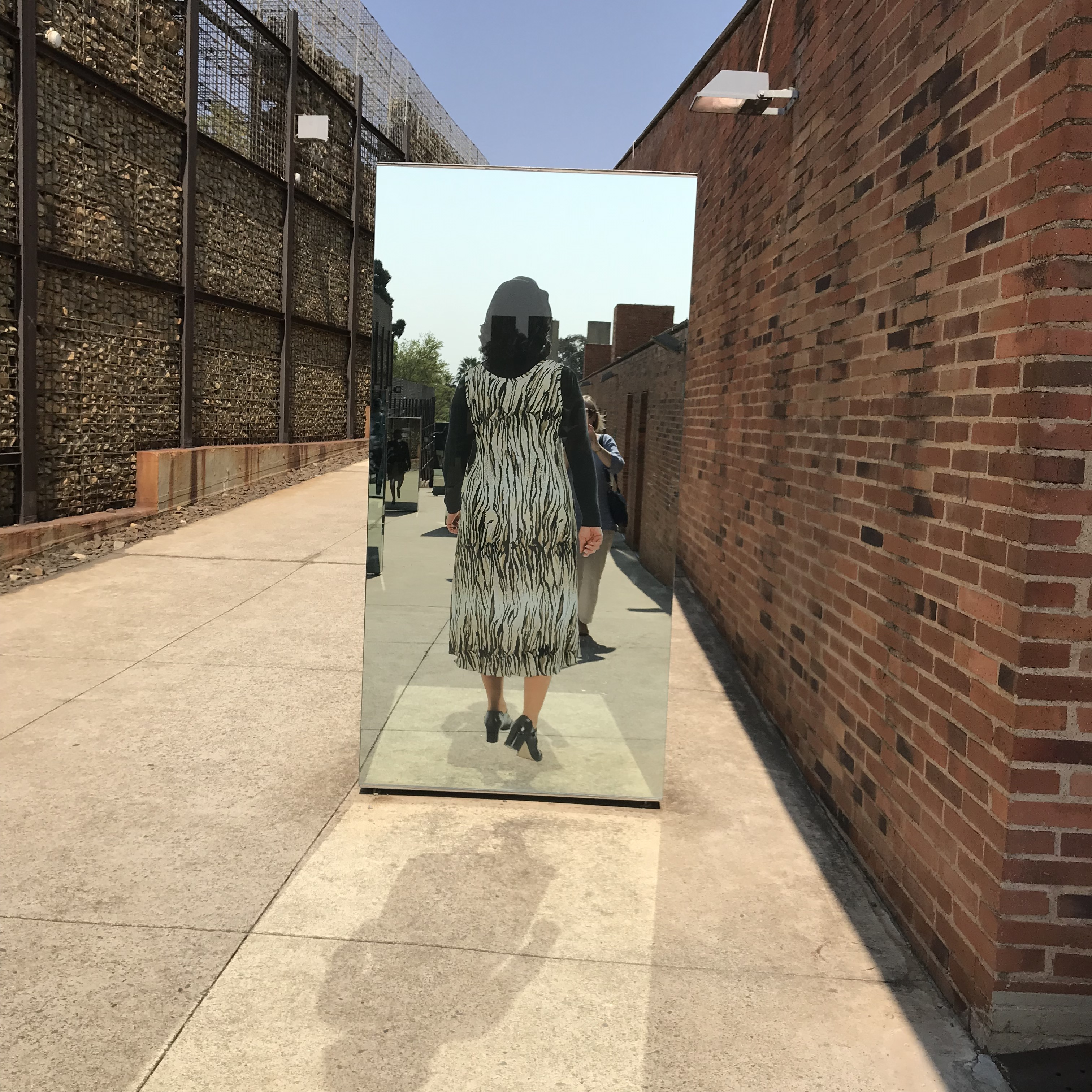 The Apartheid Museum in Johannesburg, South Africa includes an exhibit called Journeys, which includes images of the descendants of those who came to the city after the 1886 gold rush.